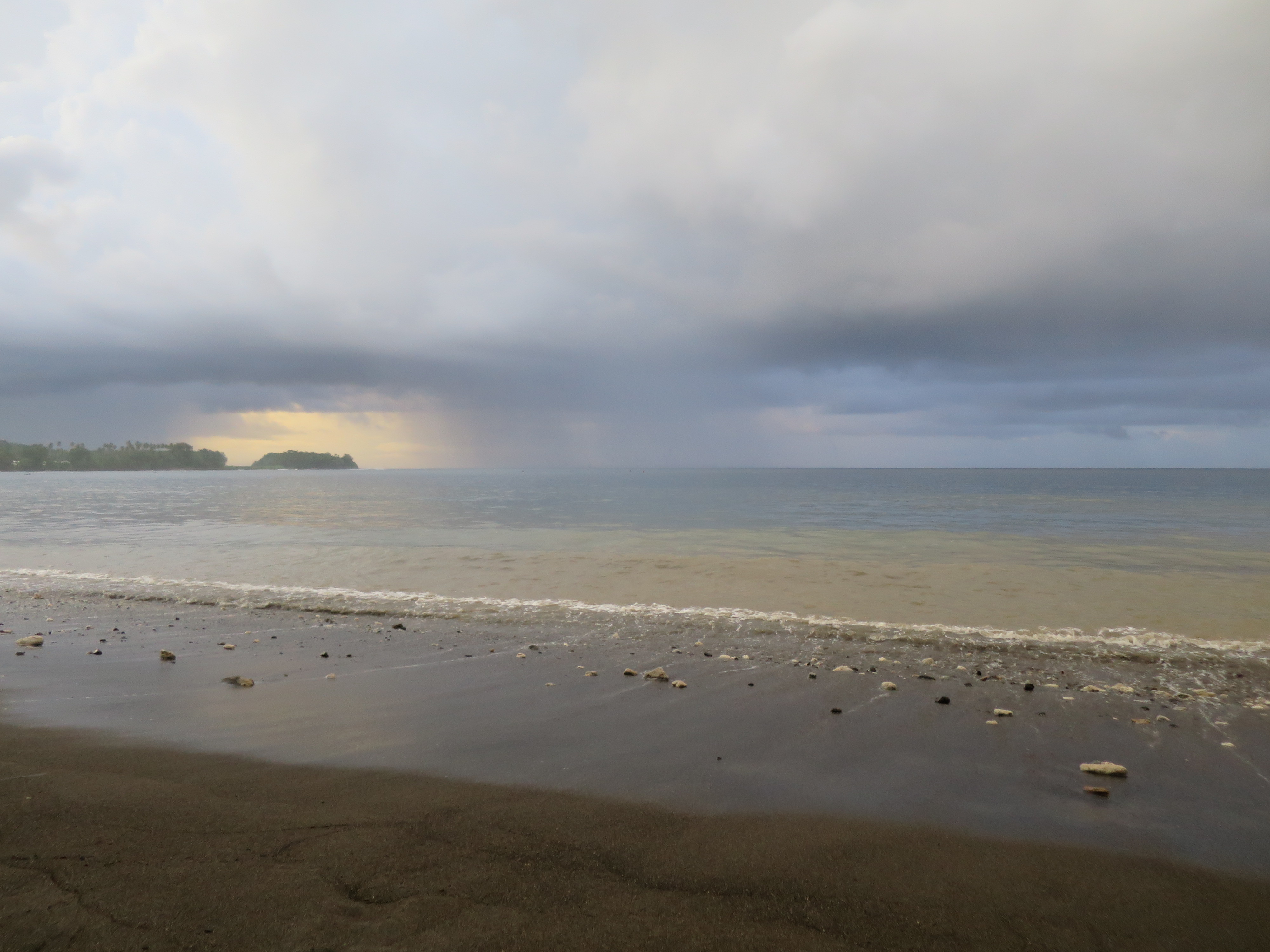 This photograph was taken at the local beach at Kirakira at sunset, when the rain was rolling in for another evening.